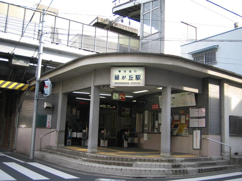 Photo of the Midorigaoka station(Tokyo, Japan).東京都目黒区緑が丘駅写真。